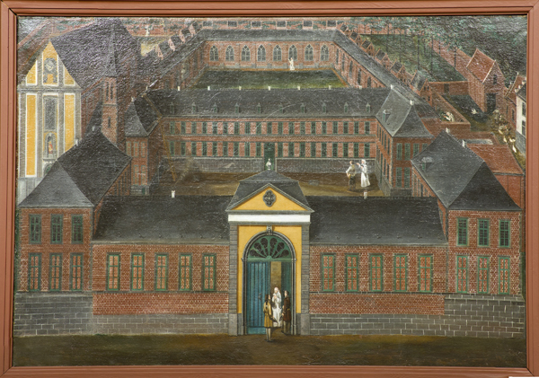 Sint-Martens-Lierde, Parochiekerk Sint-Martinus . Lierde. Oost-Vlaanderen. Belgium. Parochiekerk Sint-Martinus, voormalige kloosterkerk van de kartuizerpriorij "Sint-Maartens-Bos", binnenzicht, schilderij zicht op het kartuizerklooster. Parish church (Parochiekerk Sint-Martinus).Former abbey church ("Sint-Maartens-Bos"). Interior. Painting. . Cultural heritage; Cultural heritage|Techniques|Painting; Europe|Belgium; Europe|Belgium|Oost-Vlaanderen; Europe|Belgium|Oost-Vlaanderen|Lierde; Europe|Belgium|Oost-Vlaanderen|Sint-Martens-Lierde (Lierde). Photo: Paul M.R. Maeyaert. Ref: PM_120405_B_Sint_Martens_Lierde. Paul M.R. Maeyaert